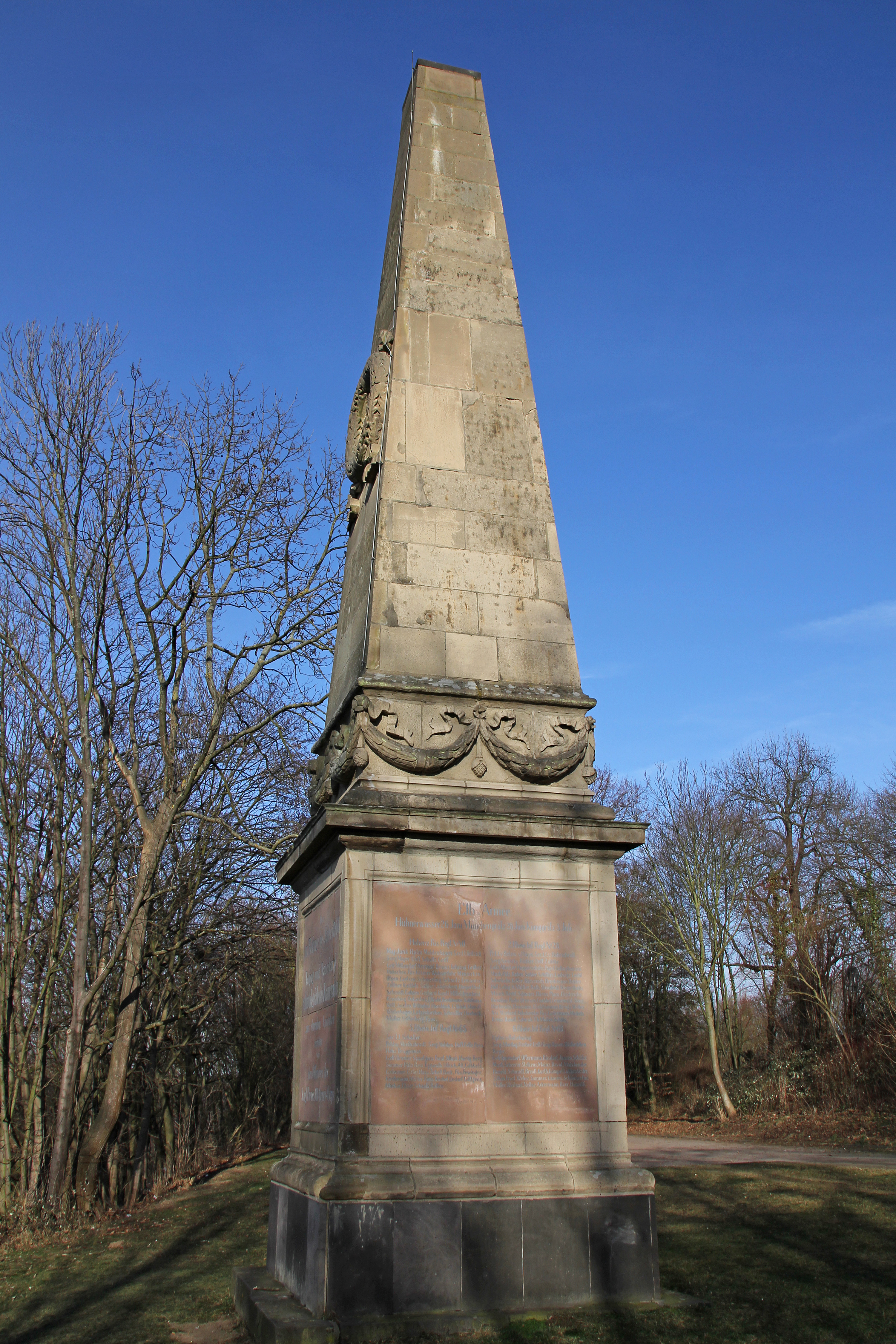 War memorial in Koblenz